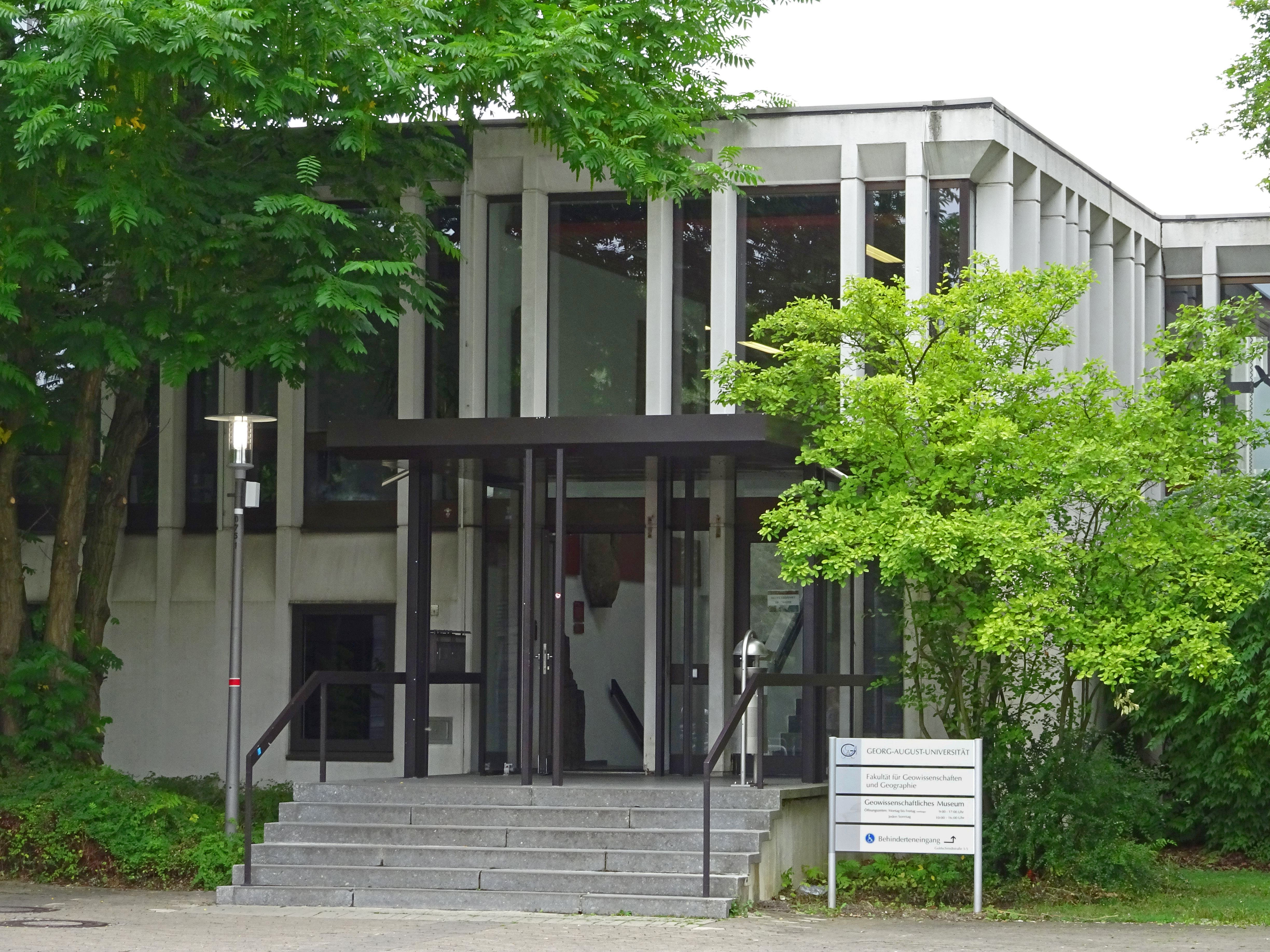 Entrance of the museum, Goldschmidtstraße 5, 37077 Göttingen